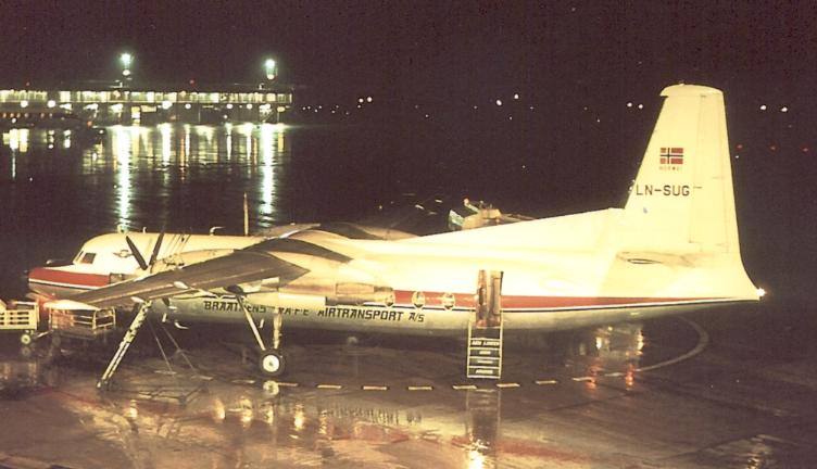 Braathens SAFE Fokker F27 at Manchester